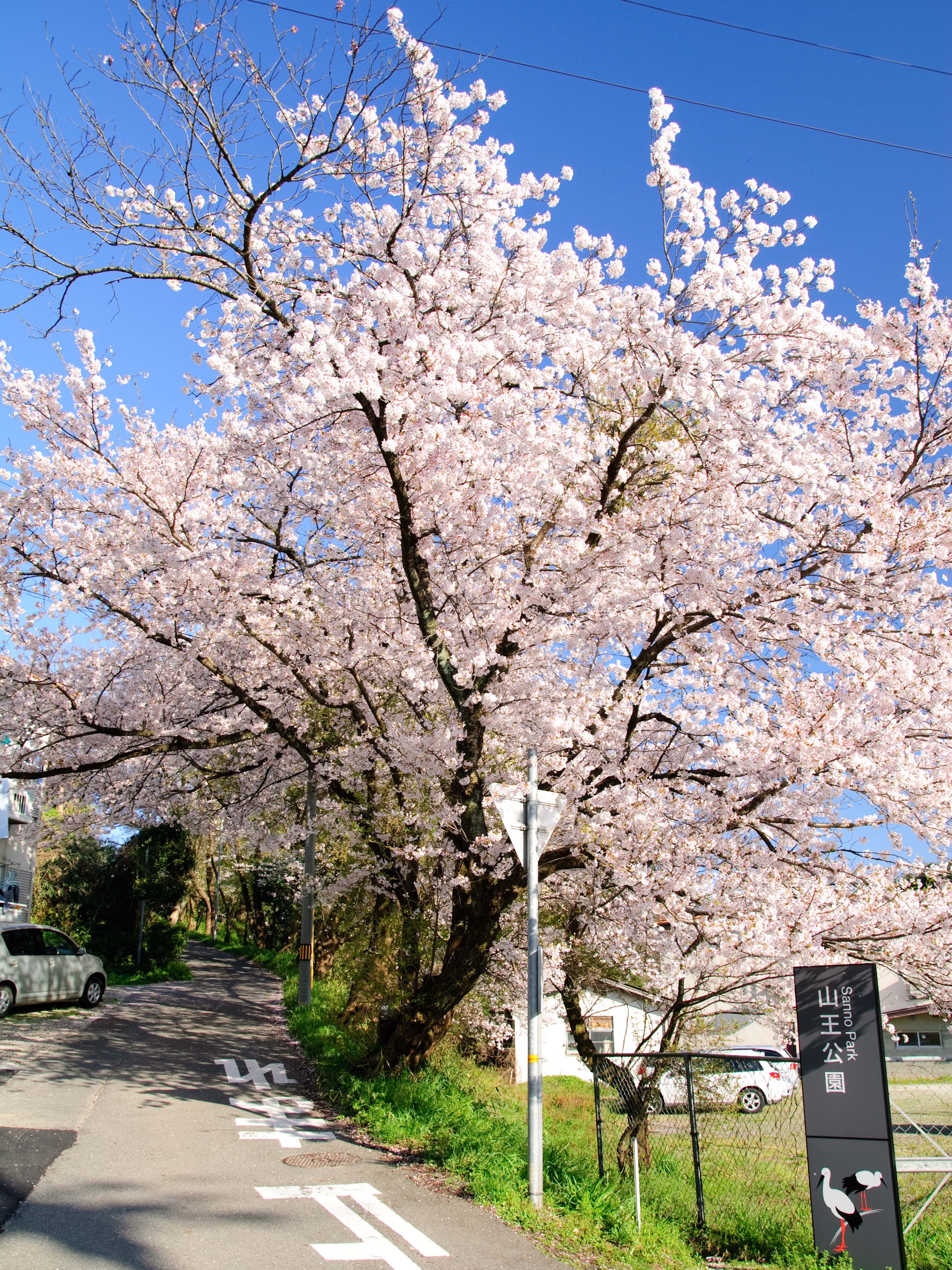 Sanno Park in Toyooka, Hyogo Prefecture, Japan.